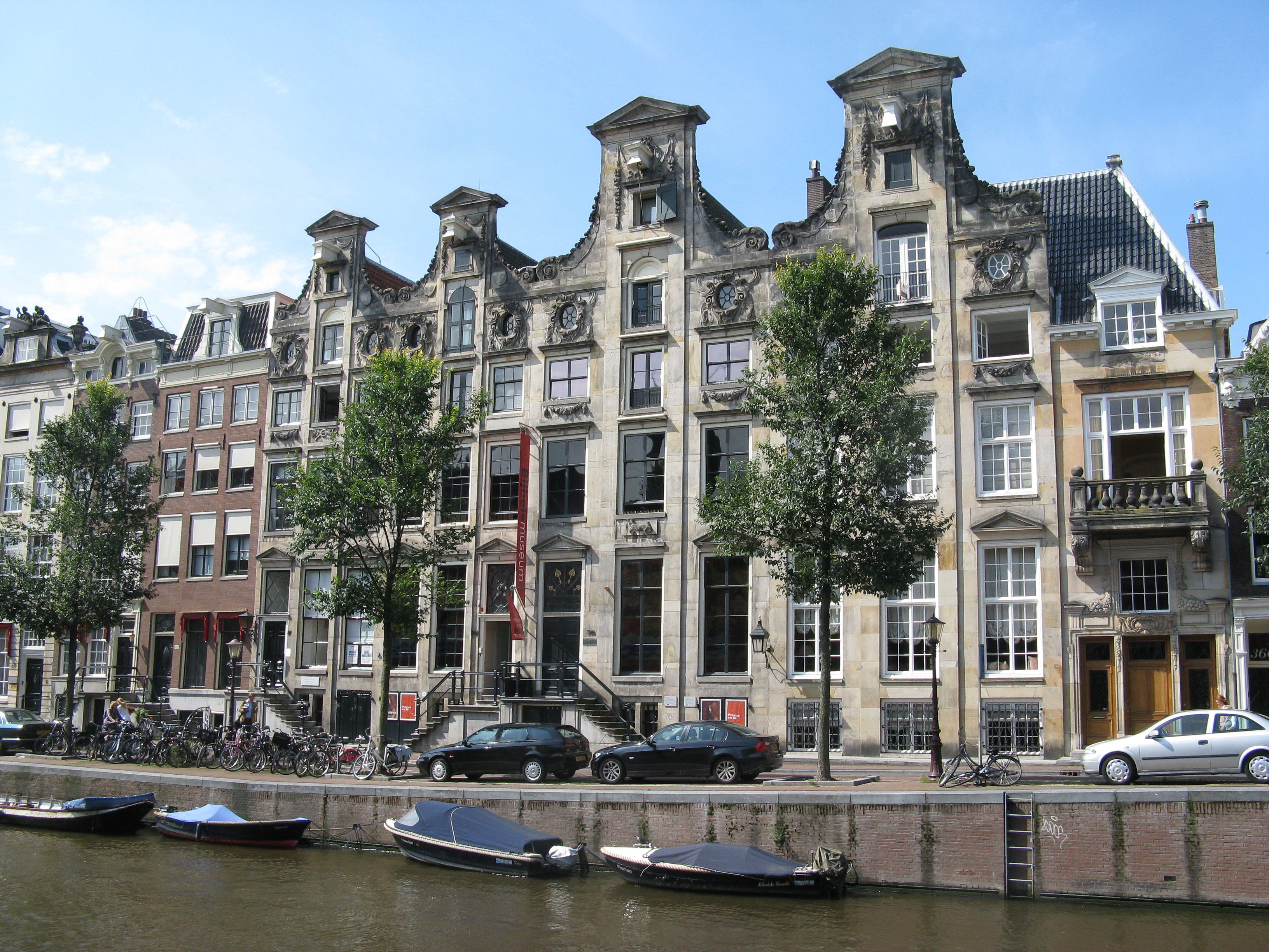 Bijbels Museum in Amsterdam